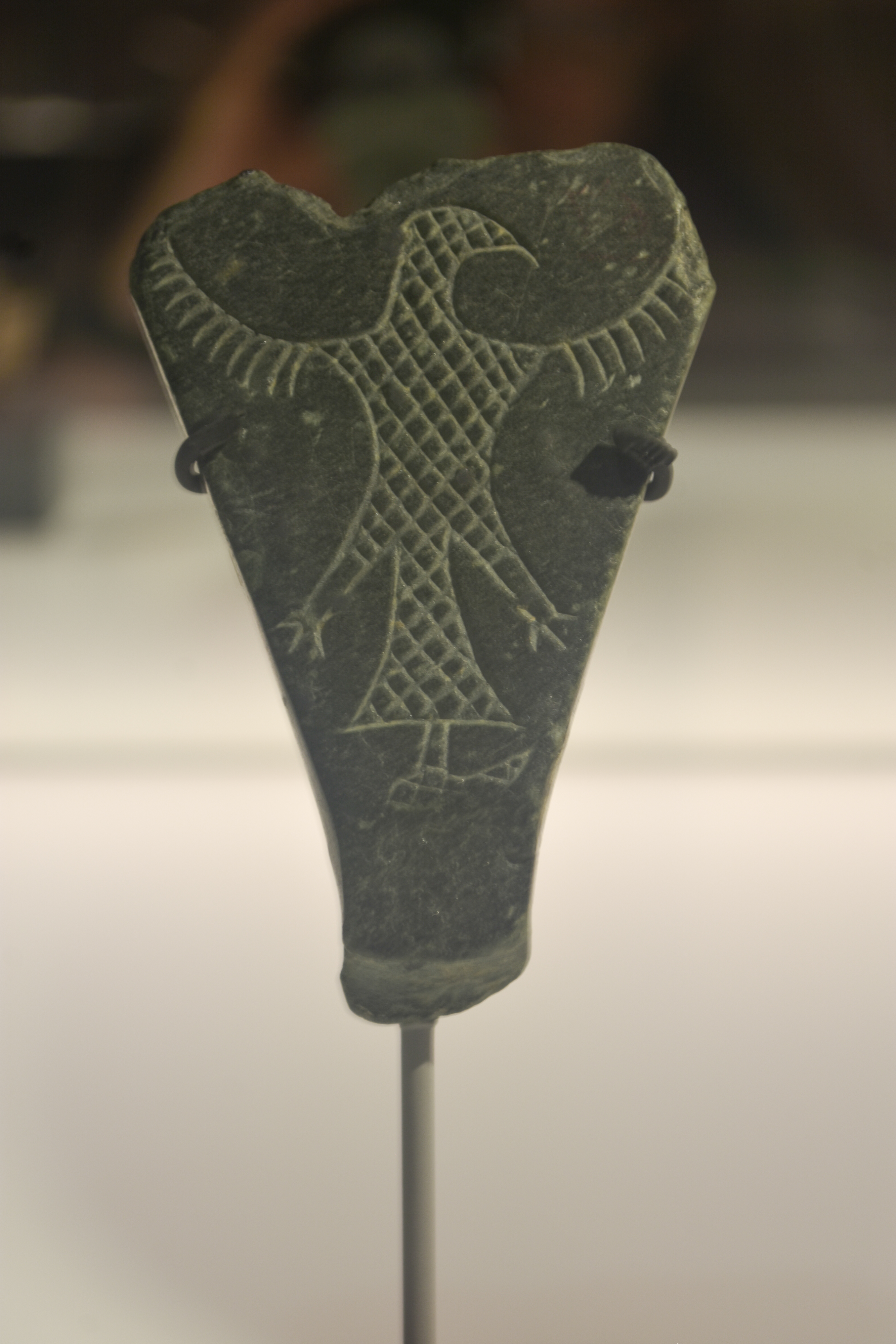 Stone plate with engraved eagle. Copper Age. Ca. 4300 BC. Yahya VC Period . Provenance: Tappeh Yahya, Kerman Iran). It is part of the exhibition Iran, cradle of civilizations in the MARQ.